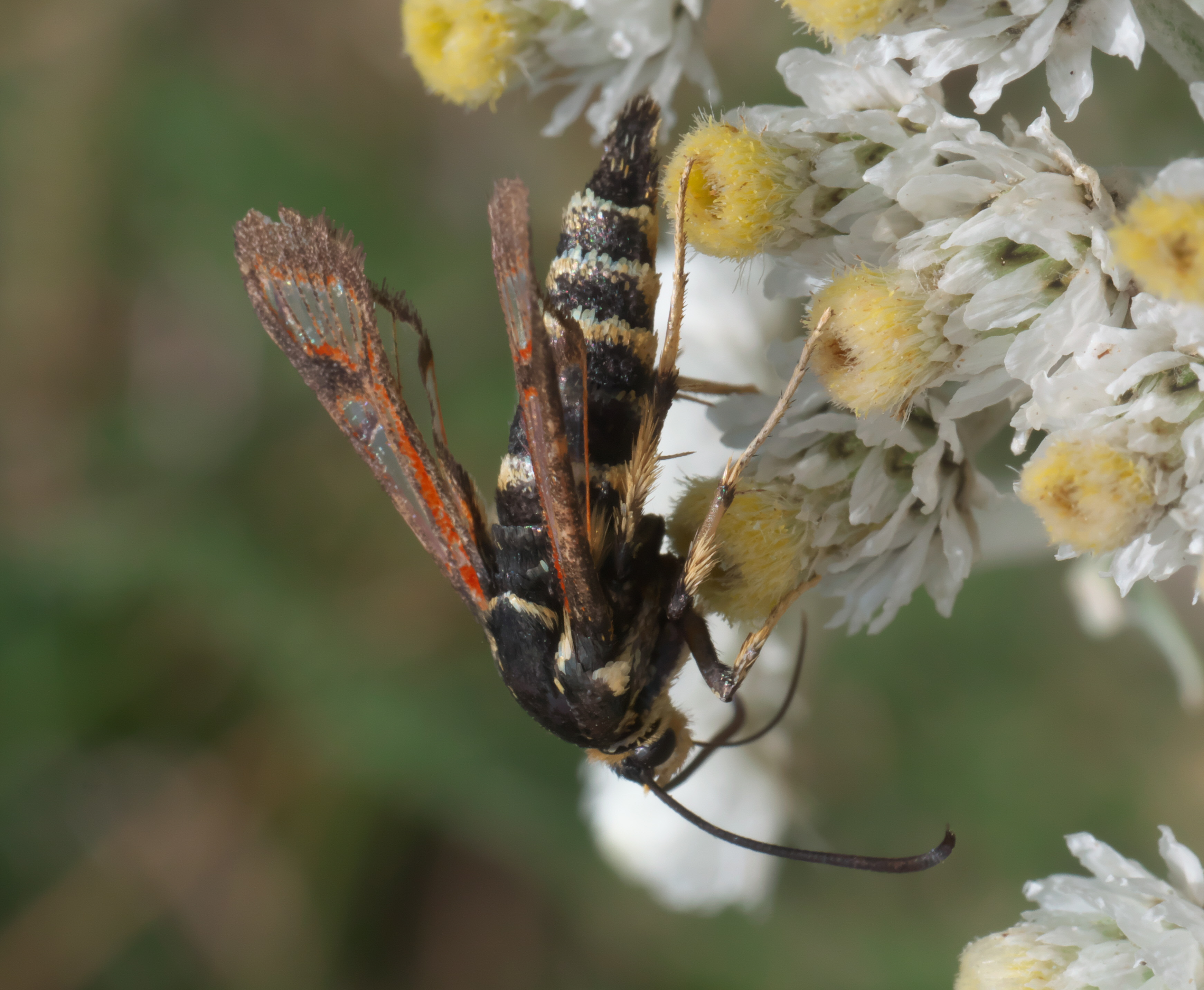 Albuna pyramidalis, Fireweed Clearwing Moth - Hodges #2533, ID Confidence: 90